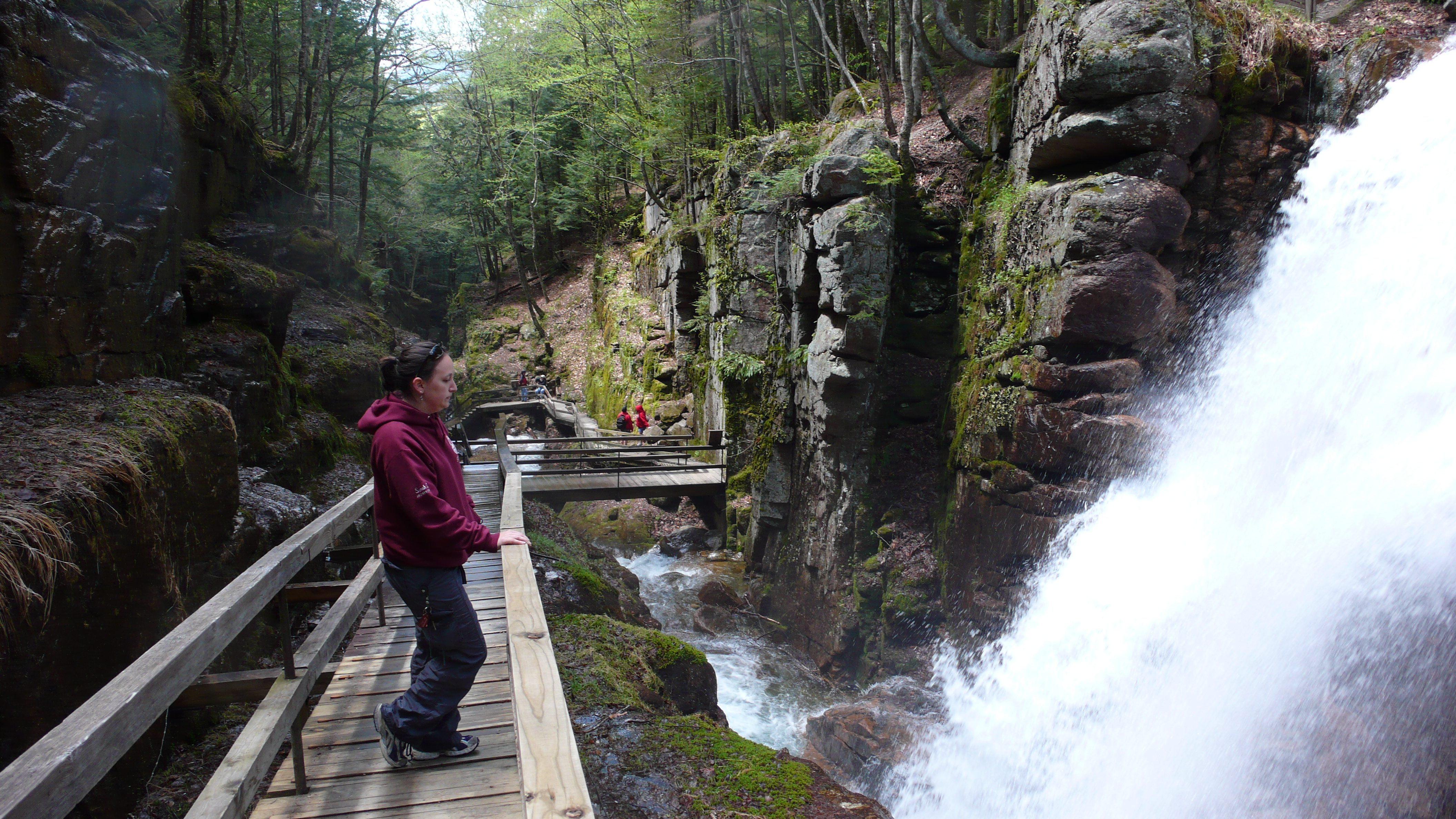 Tourists take in the scene at the Flume Gorge in the White Mountains of New Hampshire, around noon on May 21, 2007.